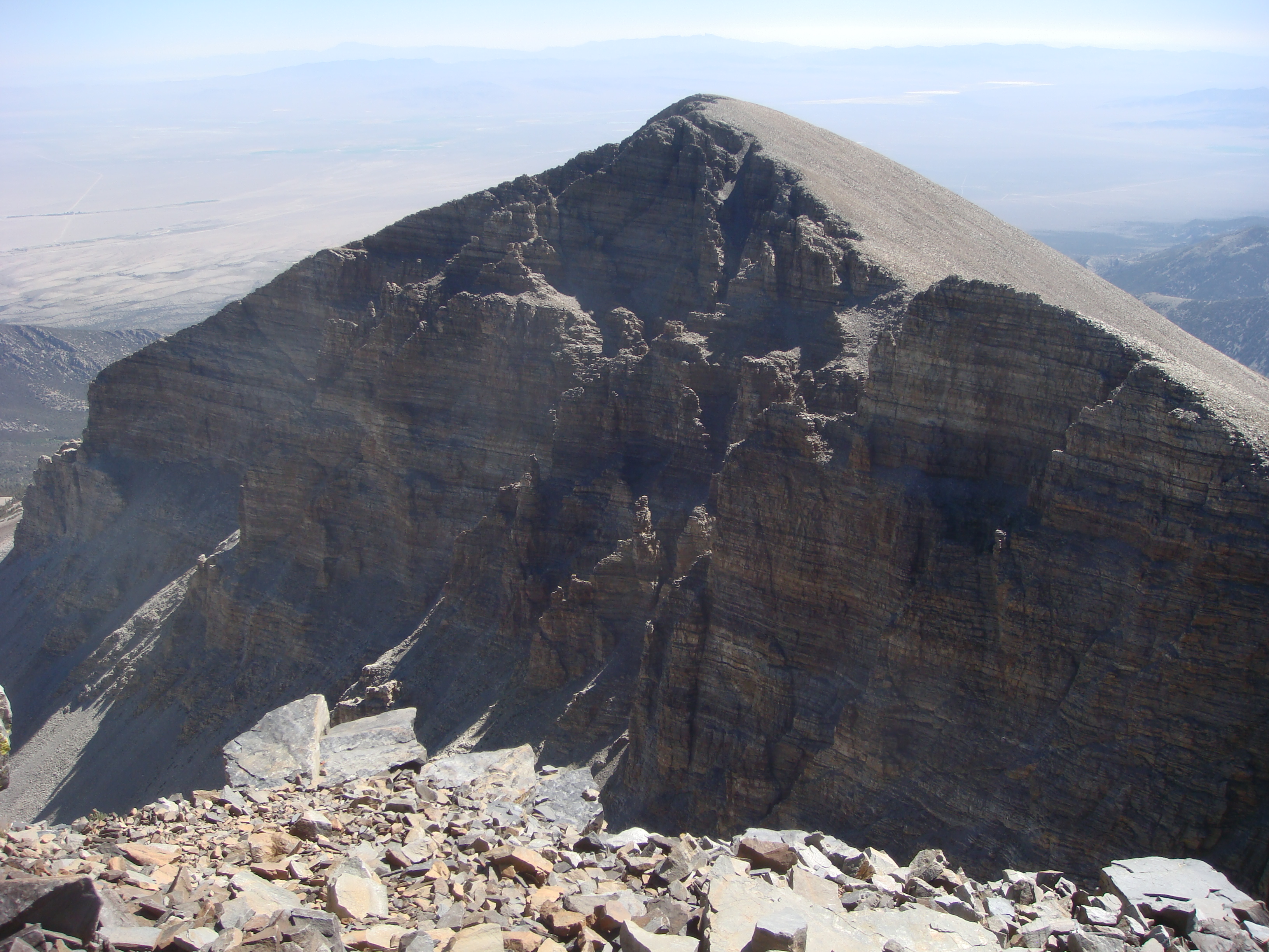 Highly durable quartzite of the Prospect Mountain Formation is the primary component of Wheeler Peak, the highest mountain peak entirely within Nevada. This picture is of Doso Doyabi, from Wheeler Peak.